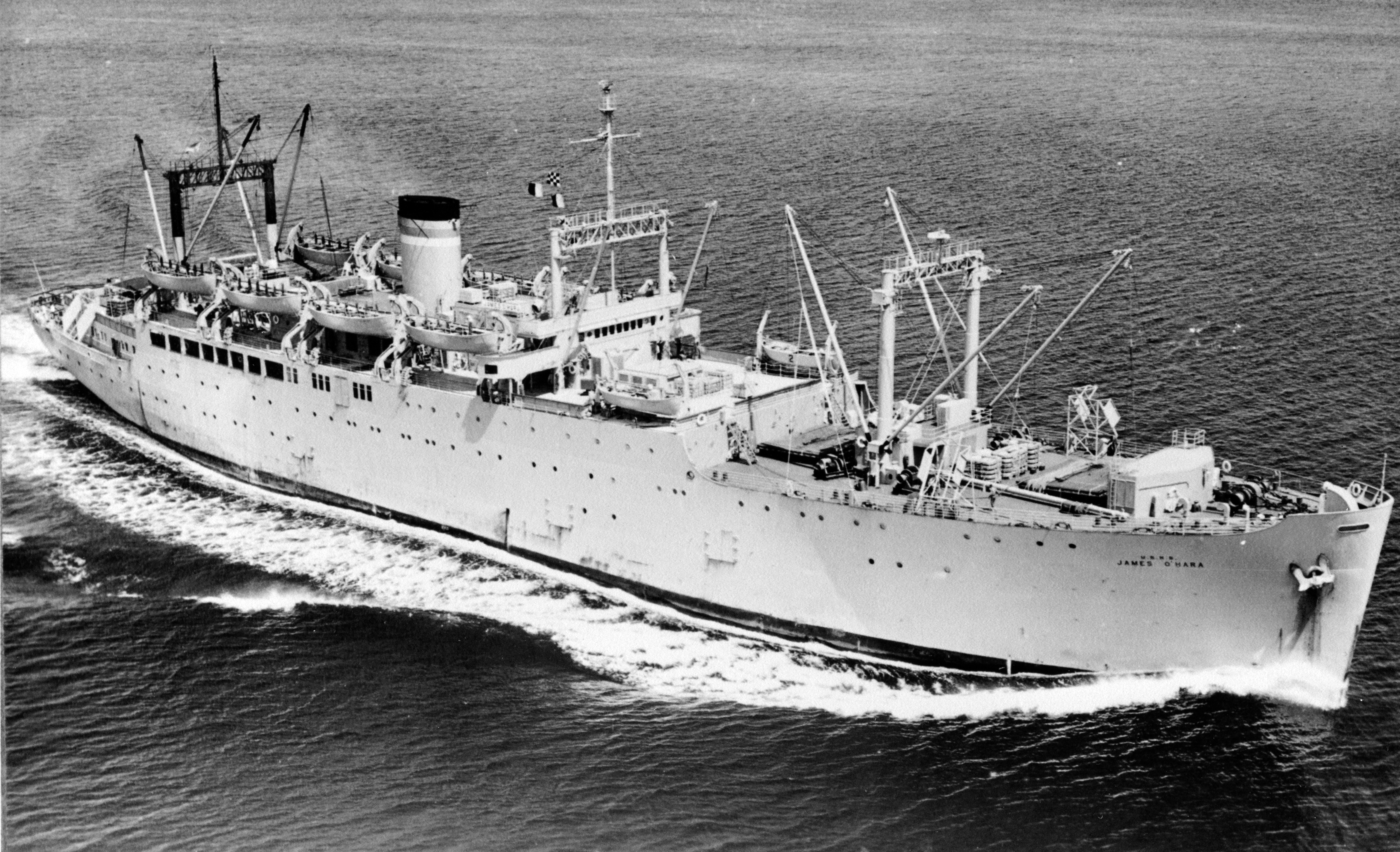 The U.S. Military Sea Transportation Service troop transport USNS James O'Hara (T-AP-179) underway at sea in the 1950s.